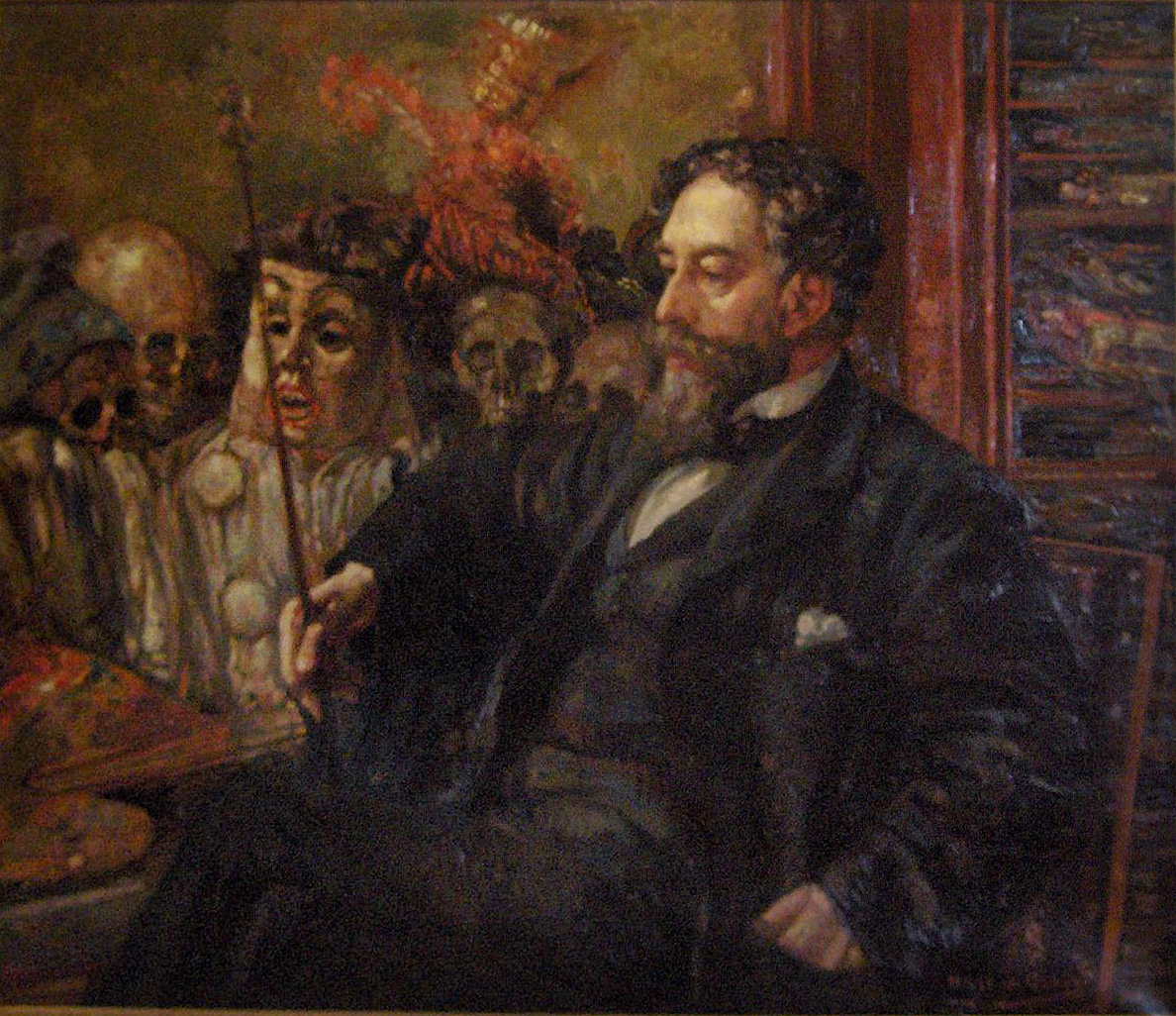 Portrait of James Ensor by Henry De Groux (1907)